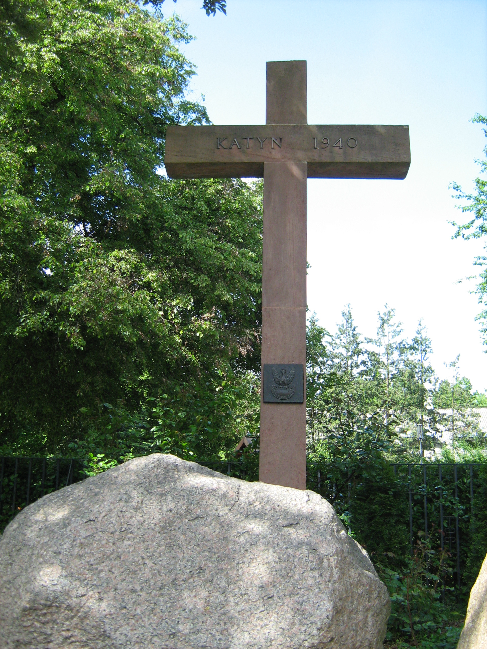 Katyn 1940 Massacre monument located in Podkowa Lesna, Poland.